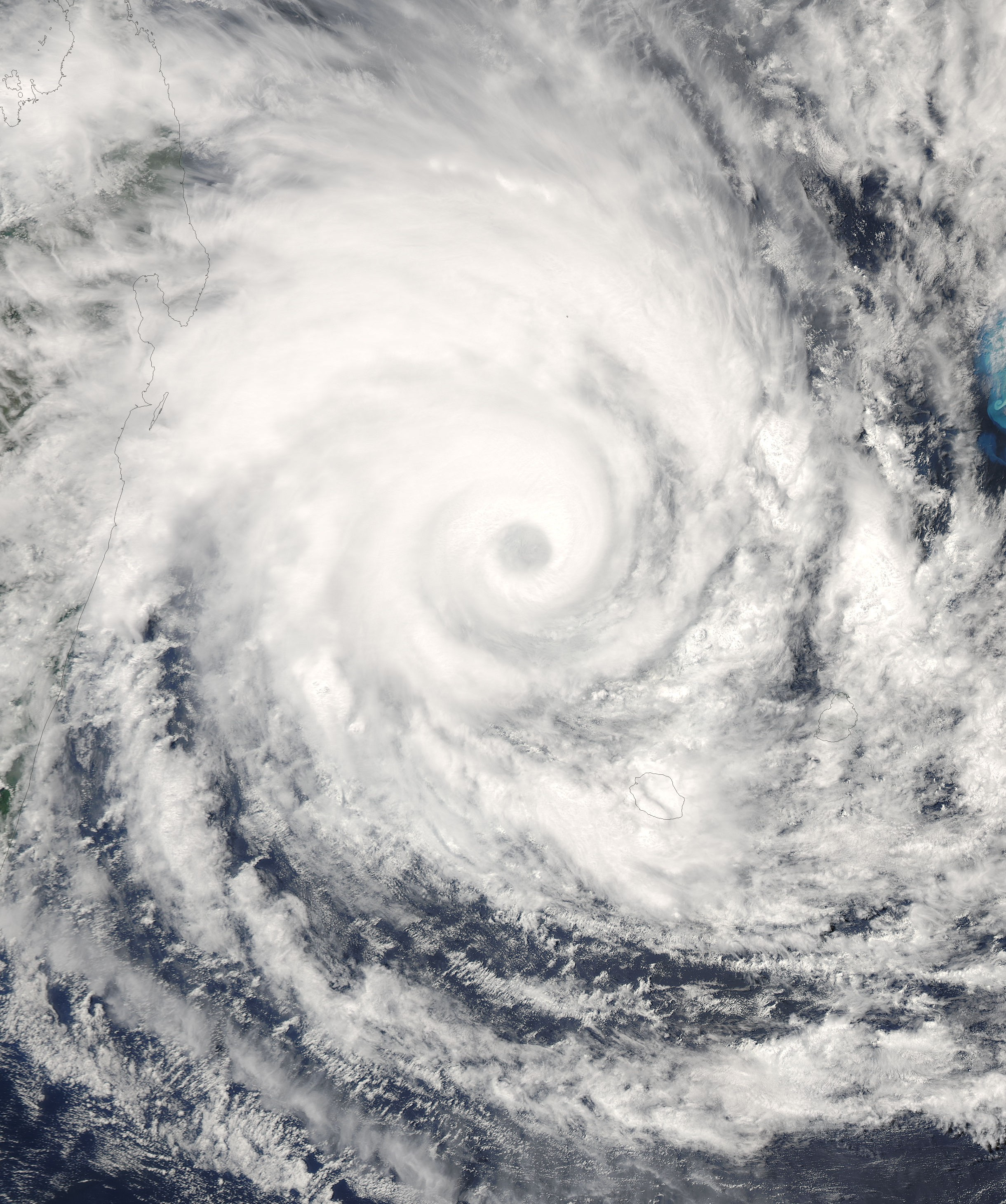 Tropical Cyclone Gamede was sitting in the western Indian Ocean off the shore of Madagascar on February 25, 2007. This powerful storm had been bringing heavy rains and strong surf to eastern Madagascar and the two major Mascarene Islands of Reunion and Mauritius. No settled land areas were experiencing the full brunt of of the sustained winds in the eyewall of the storm (reported at 195 kilometers per hour (120 miles per hour) by the Joint Typhoon Warning Center,) but damaging winds of 60 to 100 km/hr were recorded on the islands. One rainfall gauge measured totals as high as 47 centimeters over the three days Gamede was in the area, according to U.K. Accuweather. This photo-like image was acquired by the Moderate Resolution Imaging Spectroradiometer (MODIS) on NASA’s Aqua satellite on February 25, 2007, at 11:50 a.m. local time (9:50 UTC), as the storm sat in the region between the small islands and Madagascar. At that time, it appeared the storm would head roughly south, bringing more winds and rain to the Mascarene Islands but not coming ashore onto Madagascar. Since the island had been pummeled by a series of tropical cyclones and storms in preceding months, Gamede was being watched with great care and concern by residents of the islands. The image provided above is at 1 kilometer resolution, less than the full level of detail possible from the MODIS instrument. The MODIS Rapid Response System provides this image at additional resolutions. Their image collection also includes the distant, but neighboring Cyclone Humba in the central Indian Ocean.